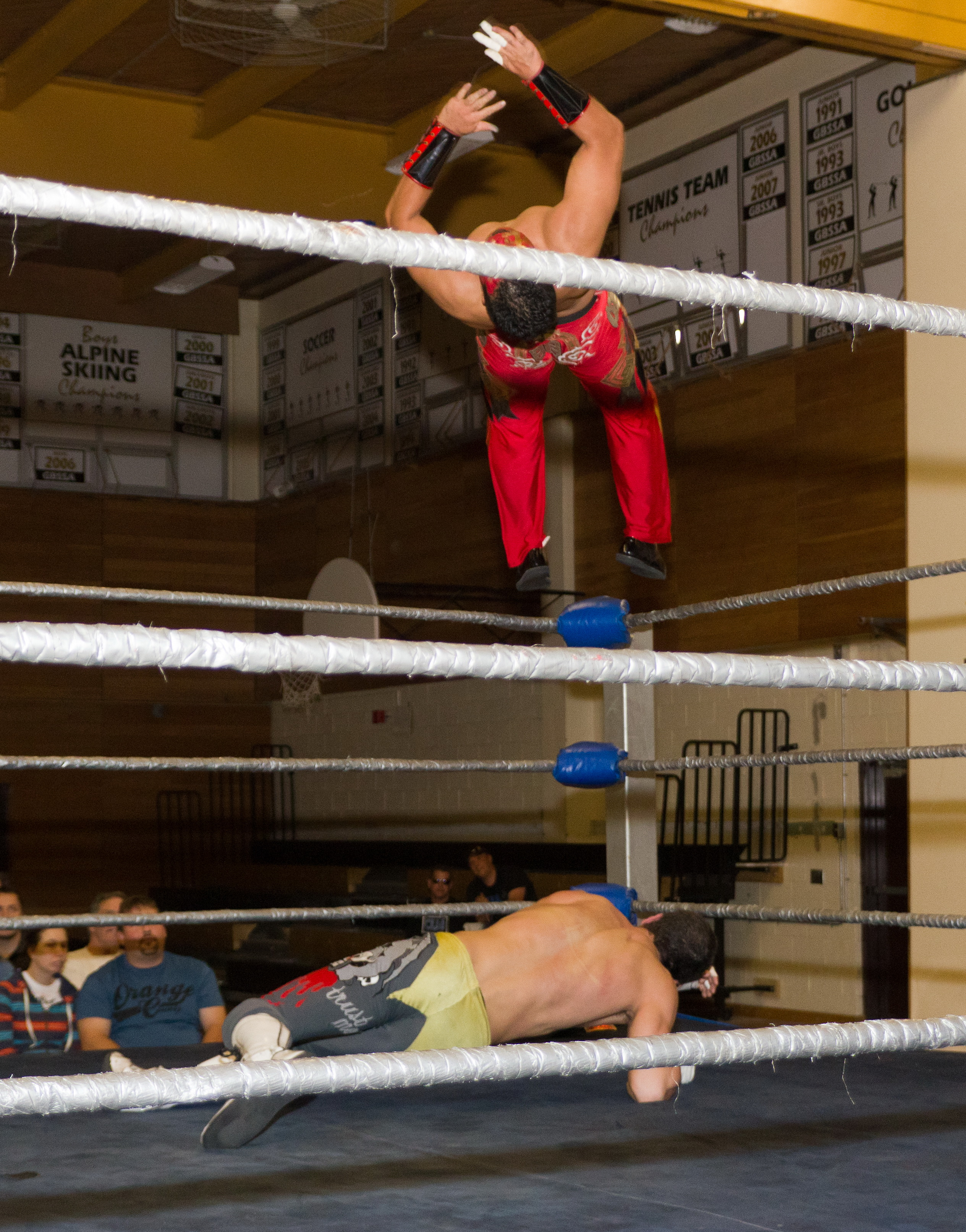 Wrestler Kiyoshi (real name Akira Kawabata) executing a moonsault on his opponent Anthony Darko at a Maximum Pro Wrestling show in Collingwood, Ontario